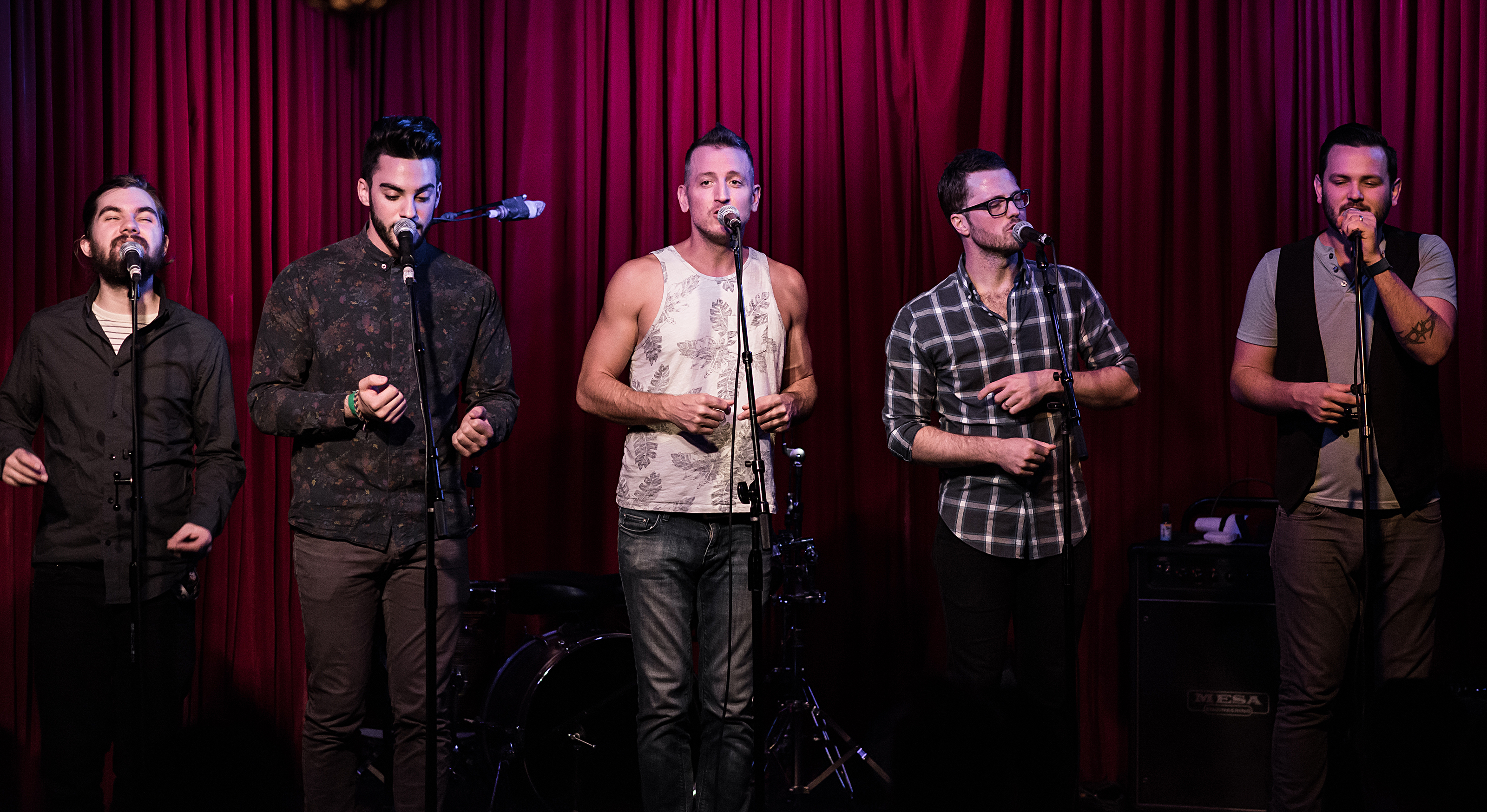 Street Corner Symphony at the Hotel Cafe